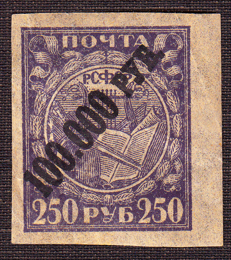 1922 Soviet 250 ruble postage stamp with a 100,000 ruble overprint due to currency hyperinflation.